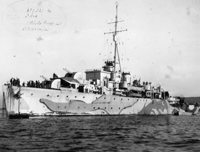 British Black Swan class sloop HMS Ibis.